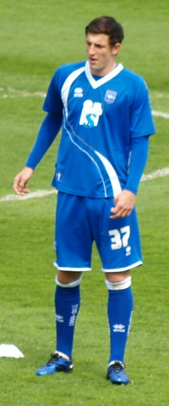 Photograph of Lewis Dunk